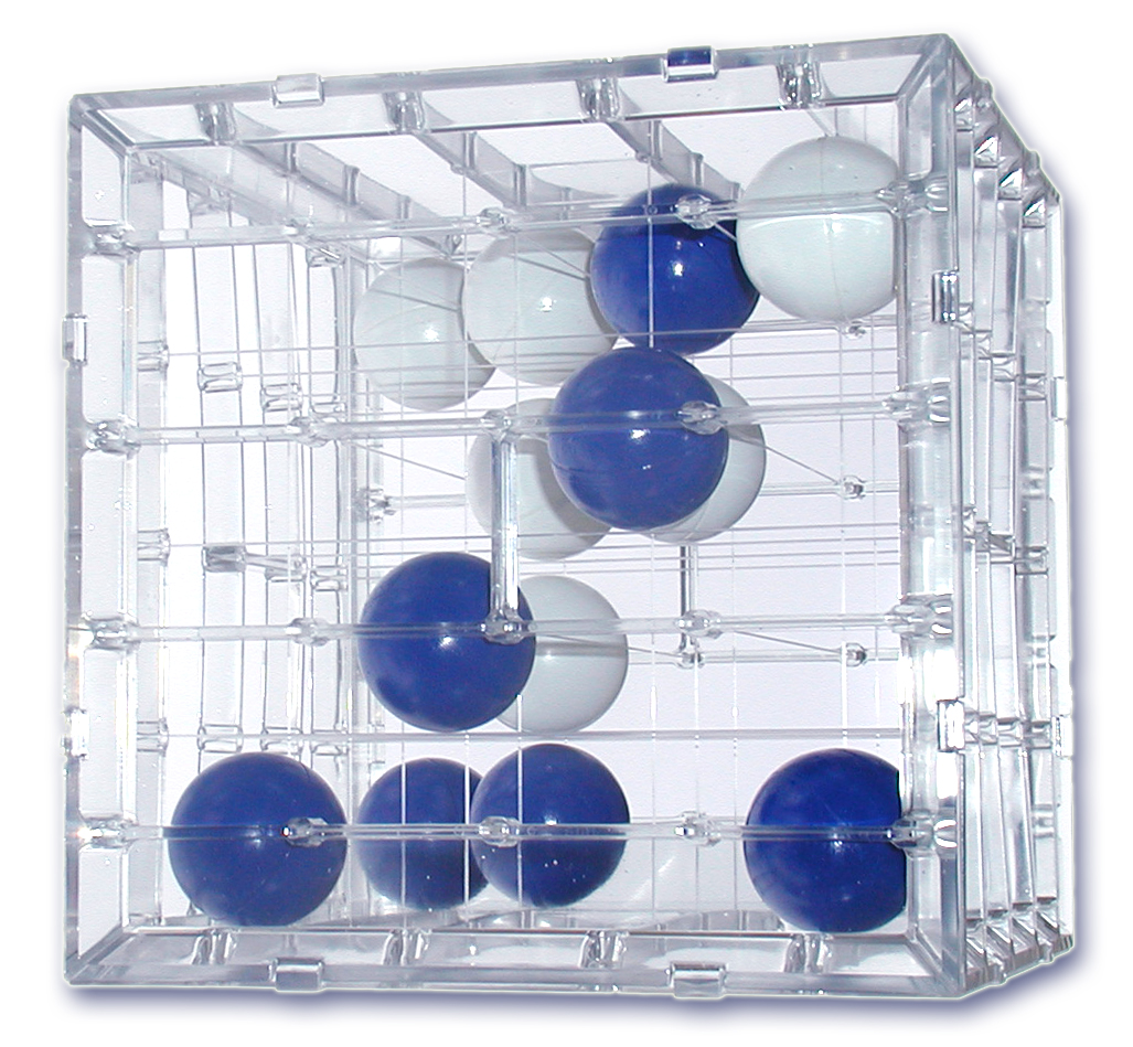 The abstract strategy game PlexiCube.